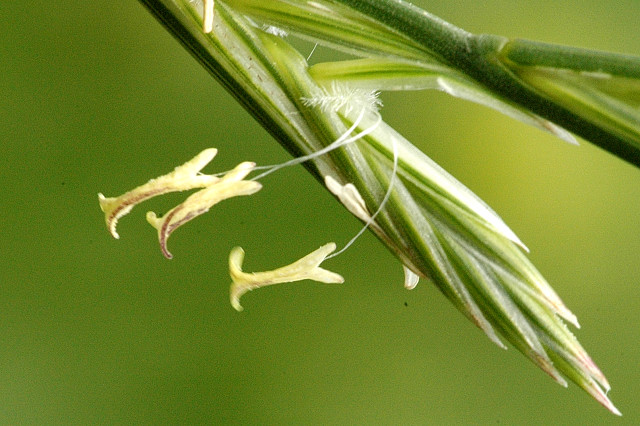 Picture taken in Commanster, Belgian High Ardennes . Species: Elytrigia repens